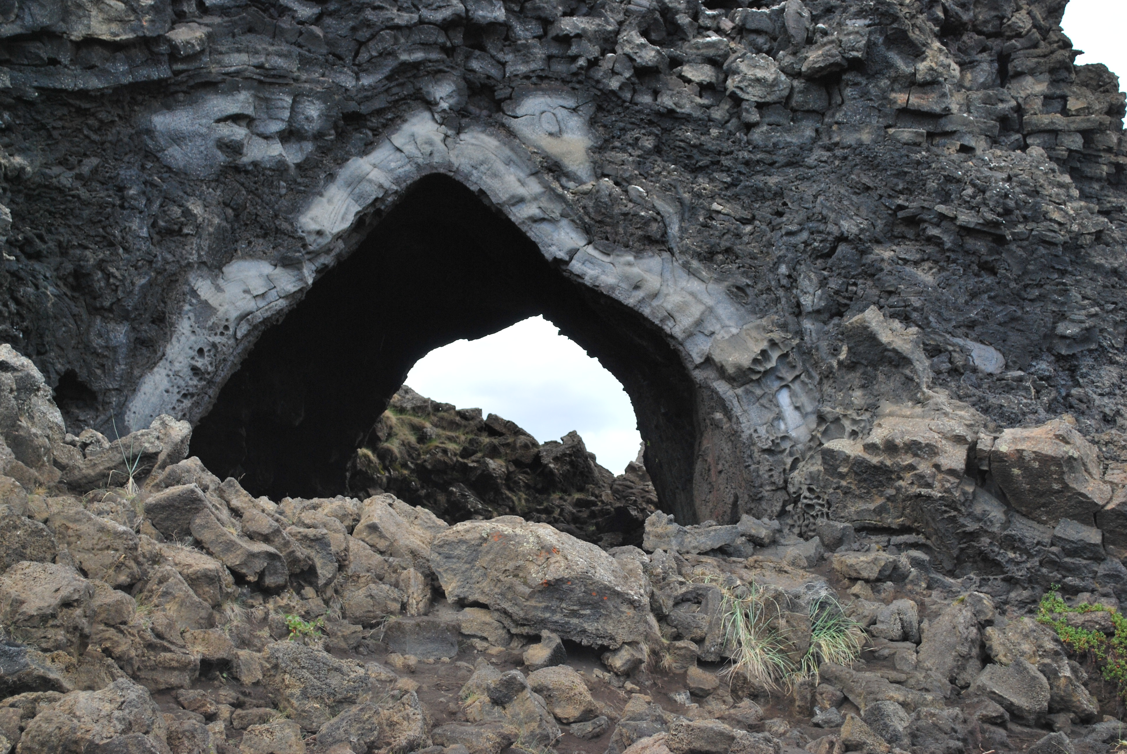 Kirkjan in Dimmuborgirs region, Northern Iceland